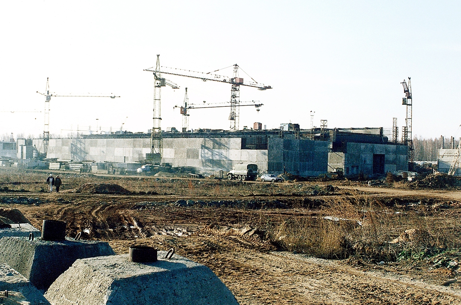 Fissile Material Storage Facility (FMSF) Mayak. Looking at storage facility processing materials, controls, accountibility, and fissile material container storage from south-west angle. Mayak, Russia.